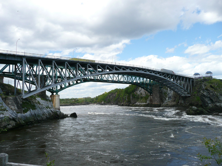 Reversing Falls Bridge in Saint John, New Brunswick.